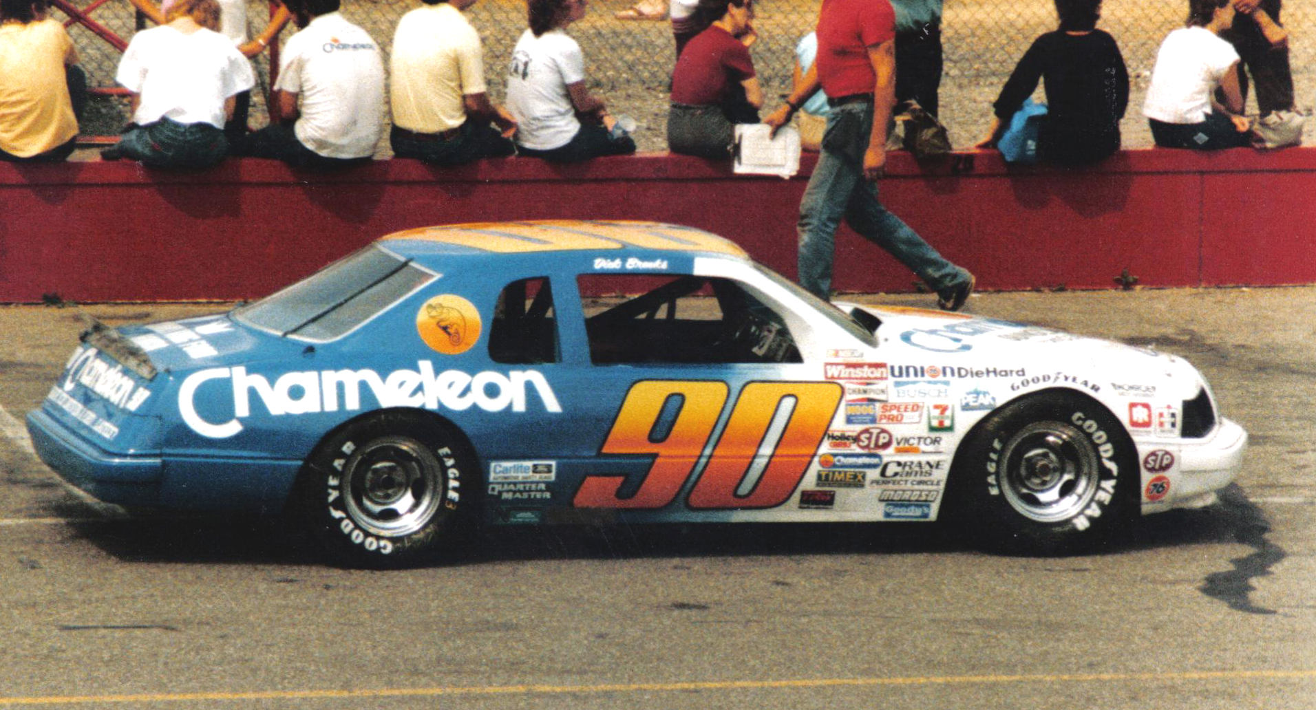 Not from 1983, but 1984. One of my all time favorite paint schemes, the 1984 Chameleon Sunglasses Ford #90 owned by Junie Donlavey and driven by Dick Brooks.